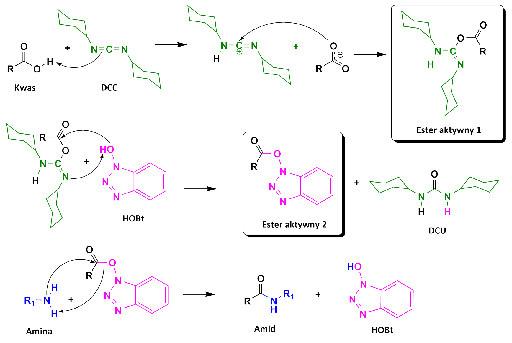 Mechanism of amide synthesis using DCC and HOBt